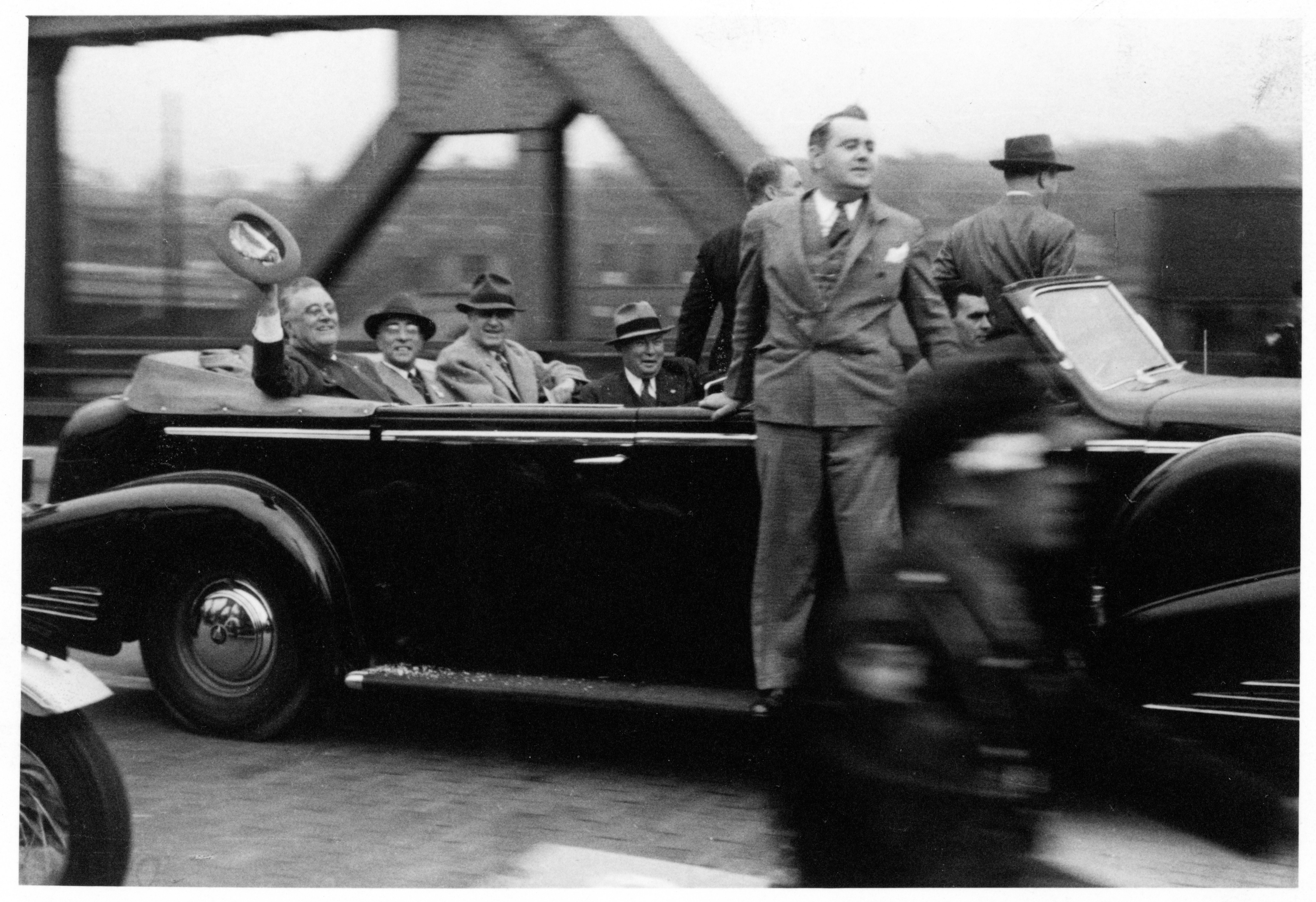 Franklin D. Roosevelt riding in 1938 Cadillac during the 1940 campaign. Tommy Qualters on running board.